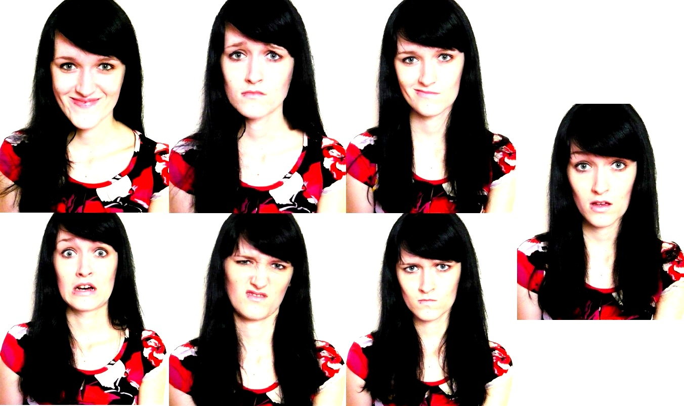 7 universal facial expressions of emotions by PhD.Paul Ekman